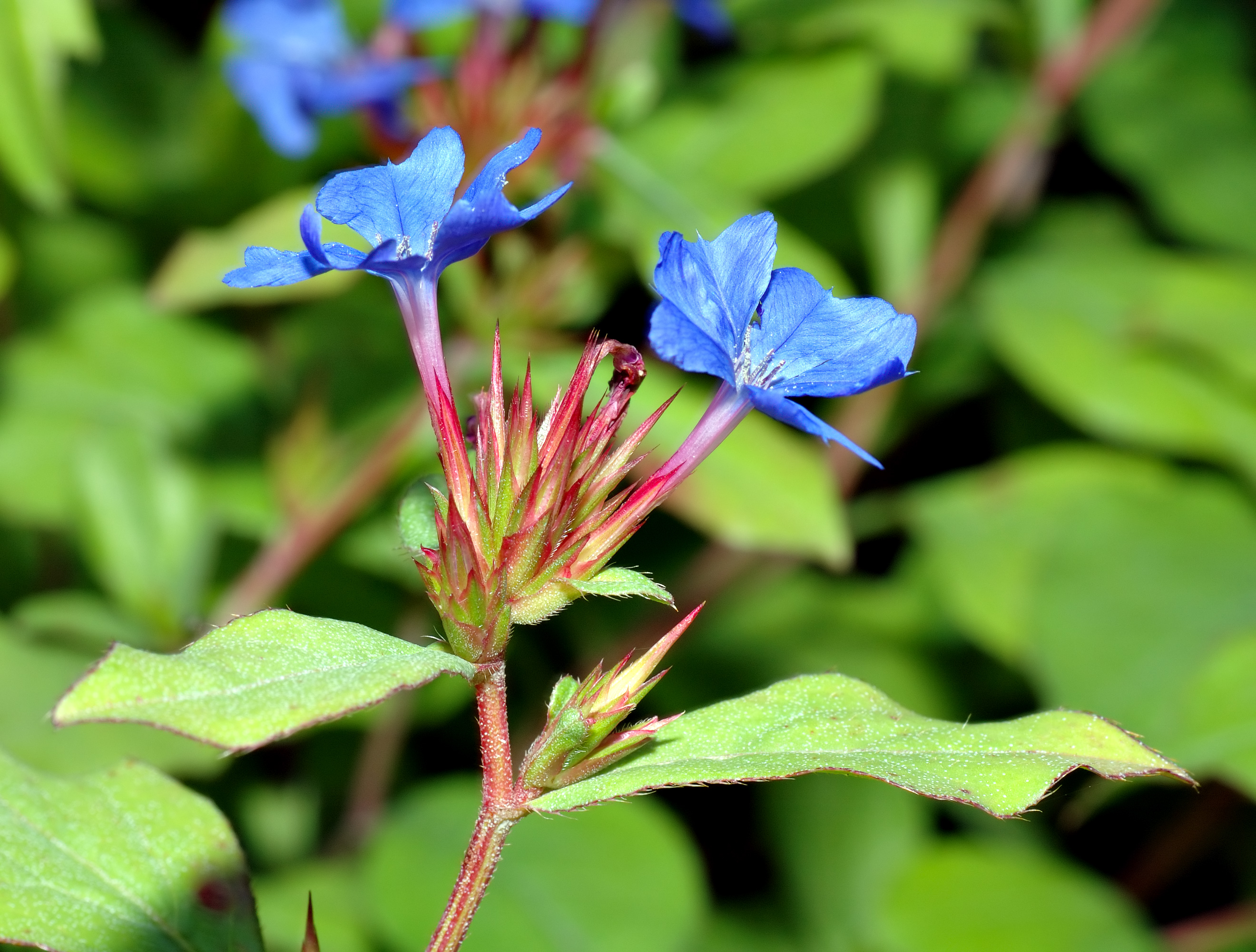 This image shows the blossom of a Blue Leadwood (Ceratostigma plumbaginoides).